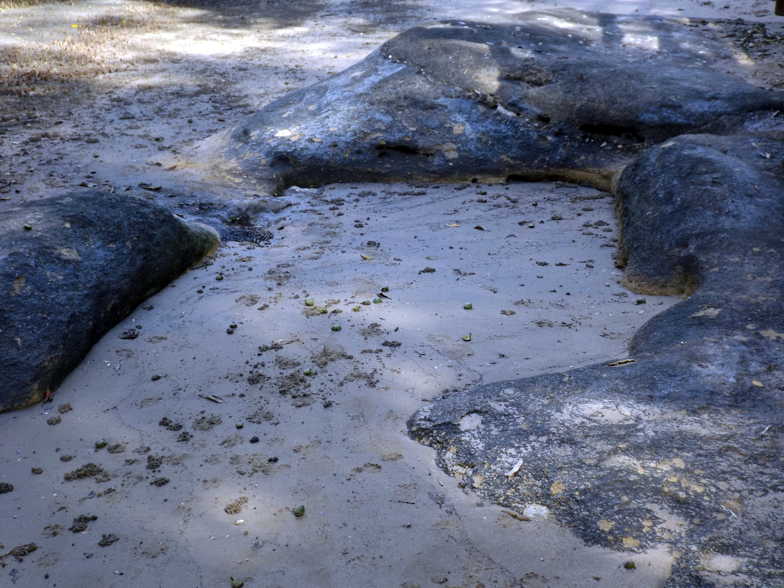 Photo of the Deception Bay Sea Baths at Deception Bay, Moreton Bay, Queensland, Australia.